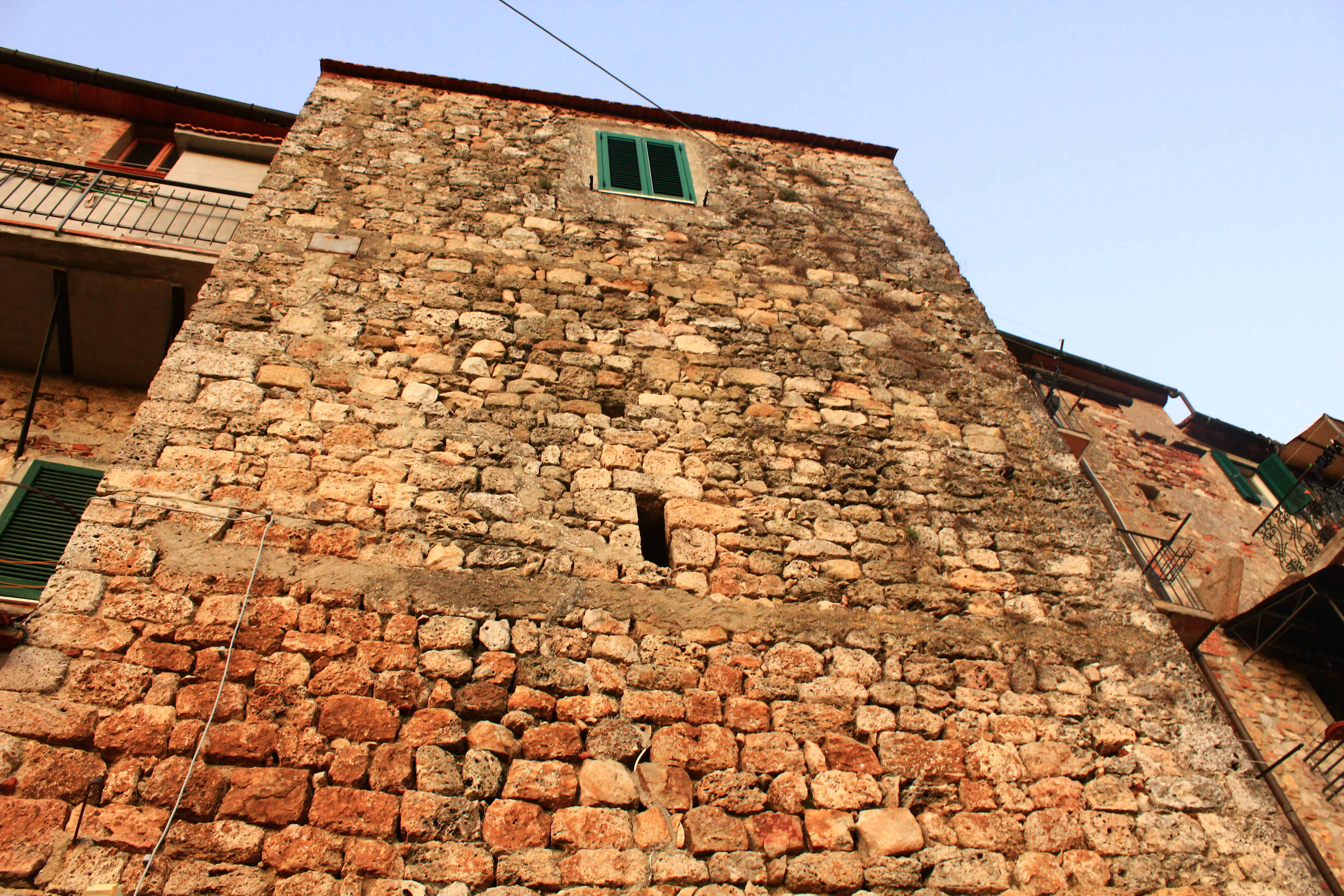 Tower of Gavorrano old walls